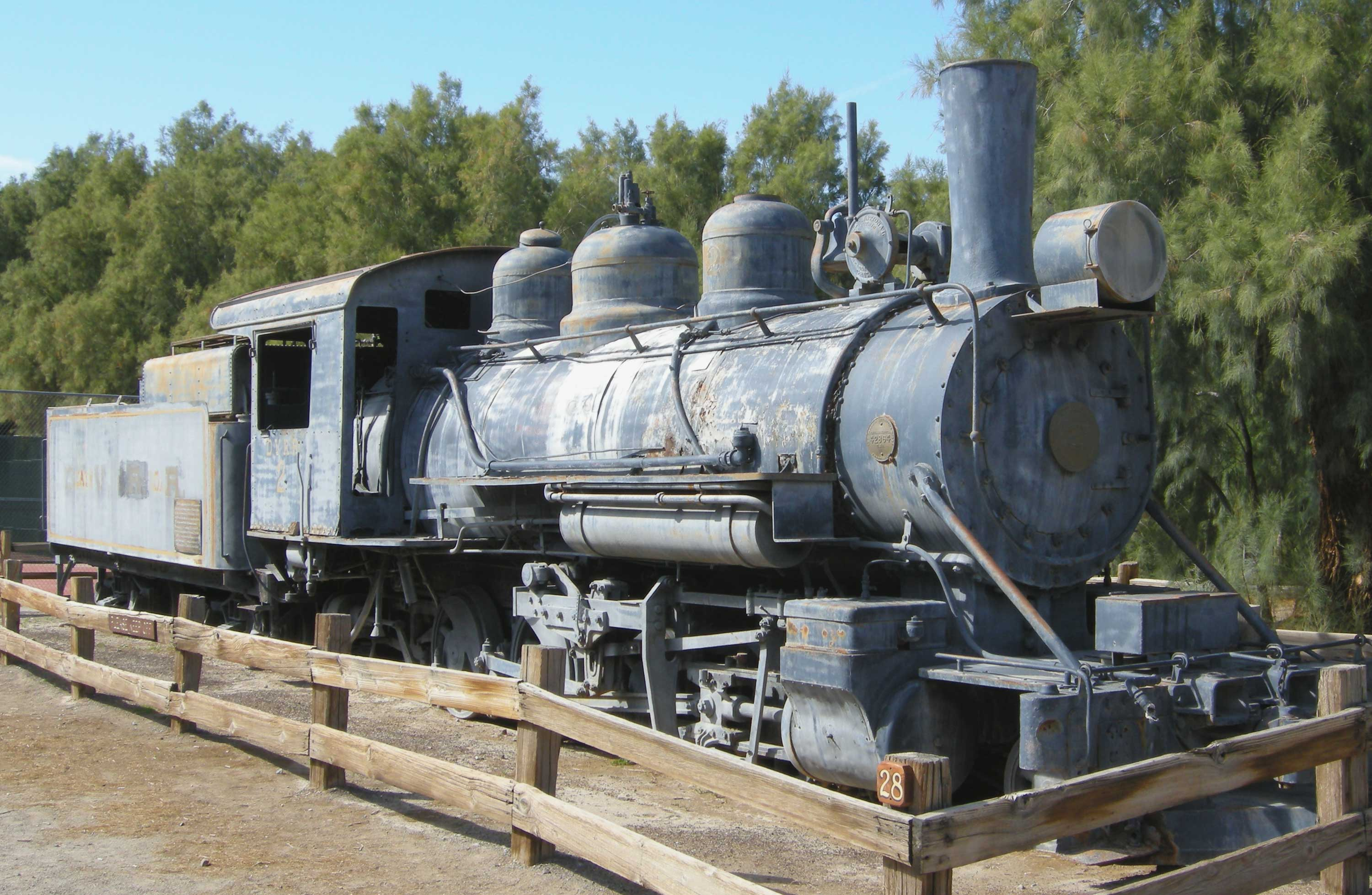 Locomotive of the Death Valley Railroad, in the Borax Museum at Furnace Creek, Death Valley National Park, California, USA. The name plate states that it was manufactured by the Baldwin Locomotive works at Philadelphia in February 1916.